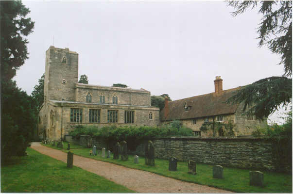 The Priory Church of St Mary the Virgin, Deerhurst, a 10th century Saxon foundation